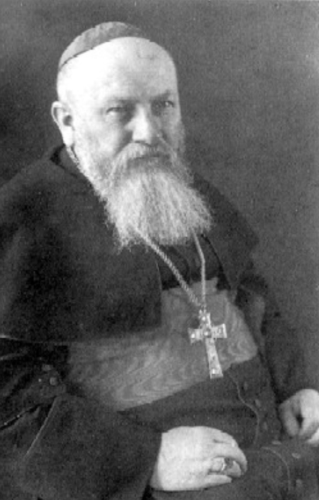 The picture of bishop and abbot of the Benedictine Order Mons. Bonifatius Sauer. He was a abbot nullius of Territorial abbey of Tokwon. He is a victim of torture from the communist regime in the North Korea. Canonisation process starts at 2007 year.